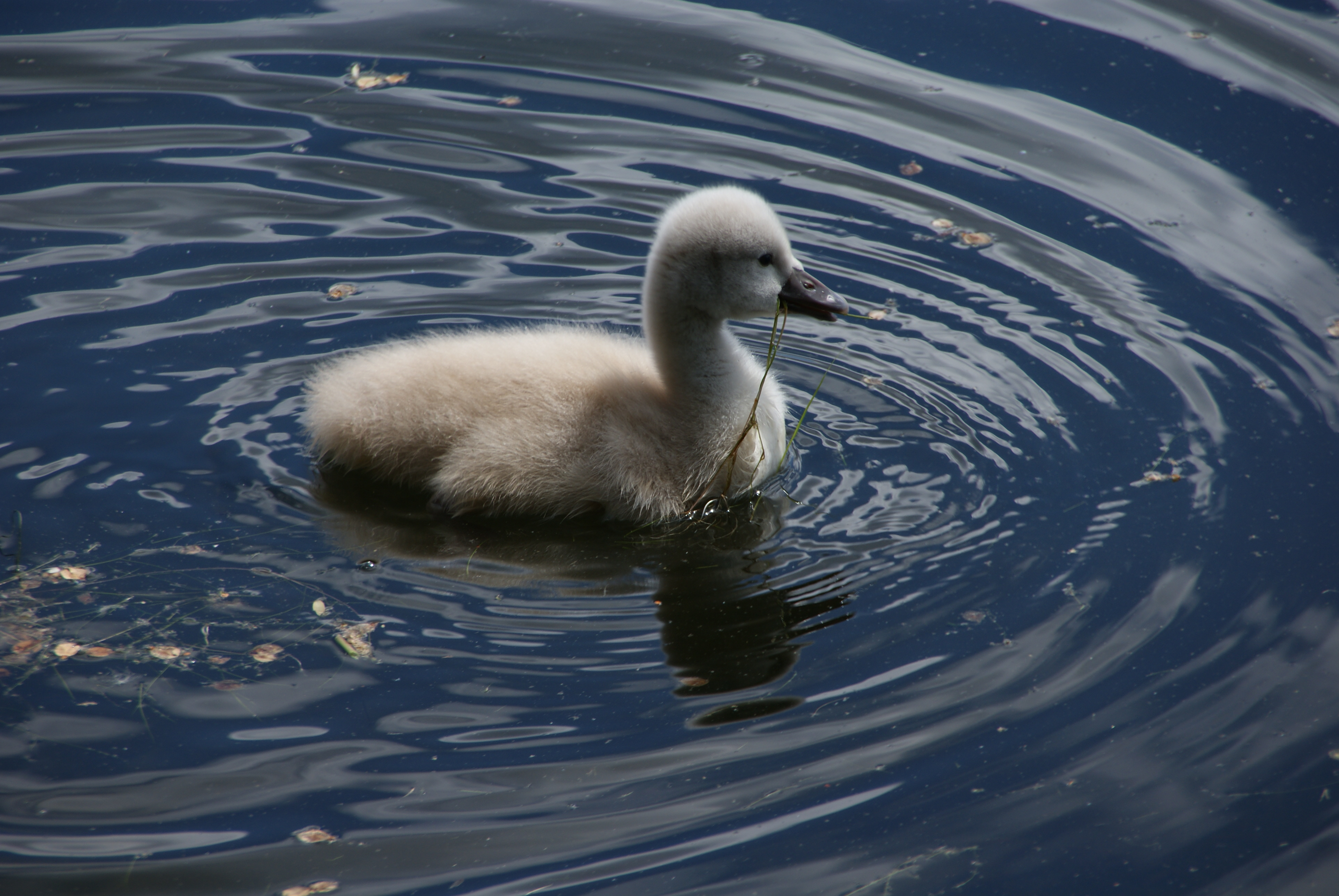 Mute Swan, Cygnet, Lake Tegel, Berlin